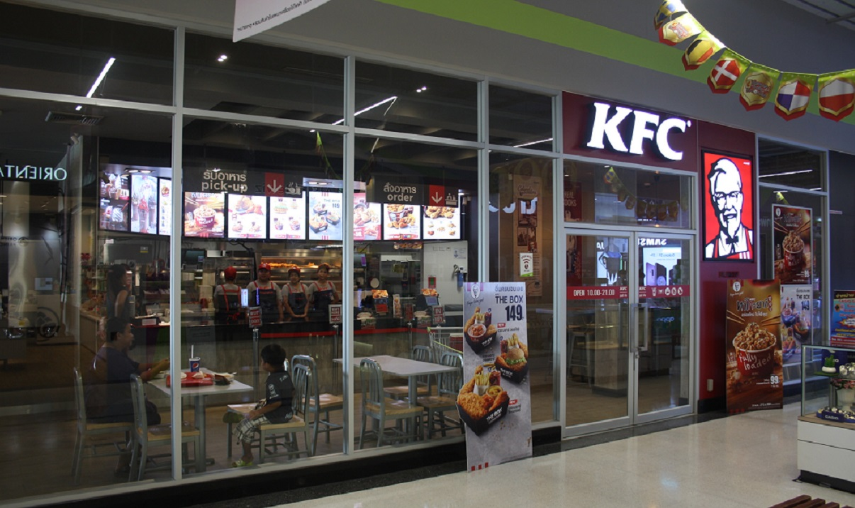 KFC Restaurant at Big C Supercenter in Wichian Buri, Phetchabun